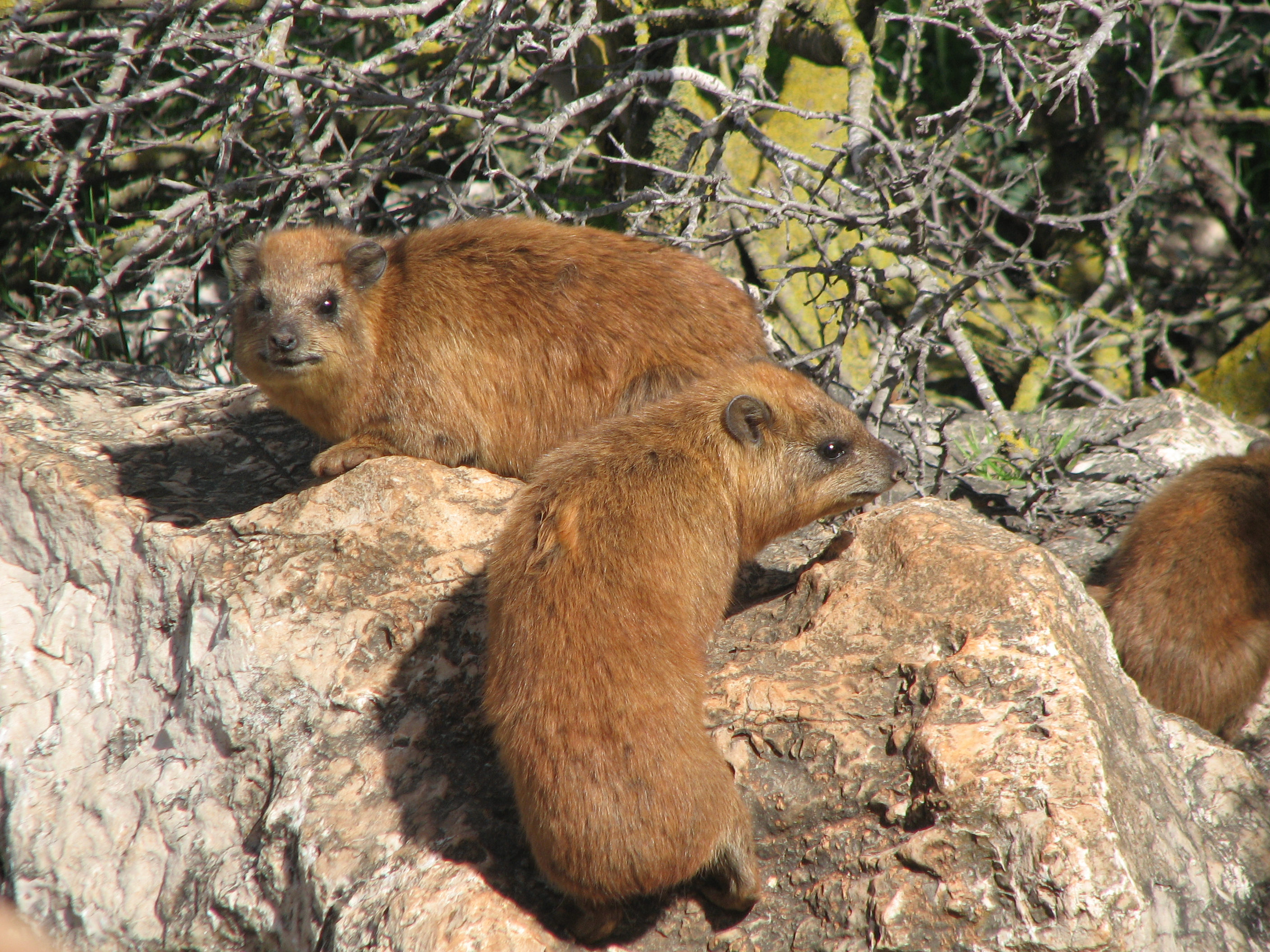 Two hyraxes, one showing its dorsal gland